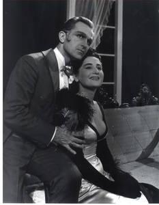 Janusz Żełobowski z Iwoną Borowicką w spektaklu "Fajerwerk", Kraków, 1965 rok.